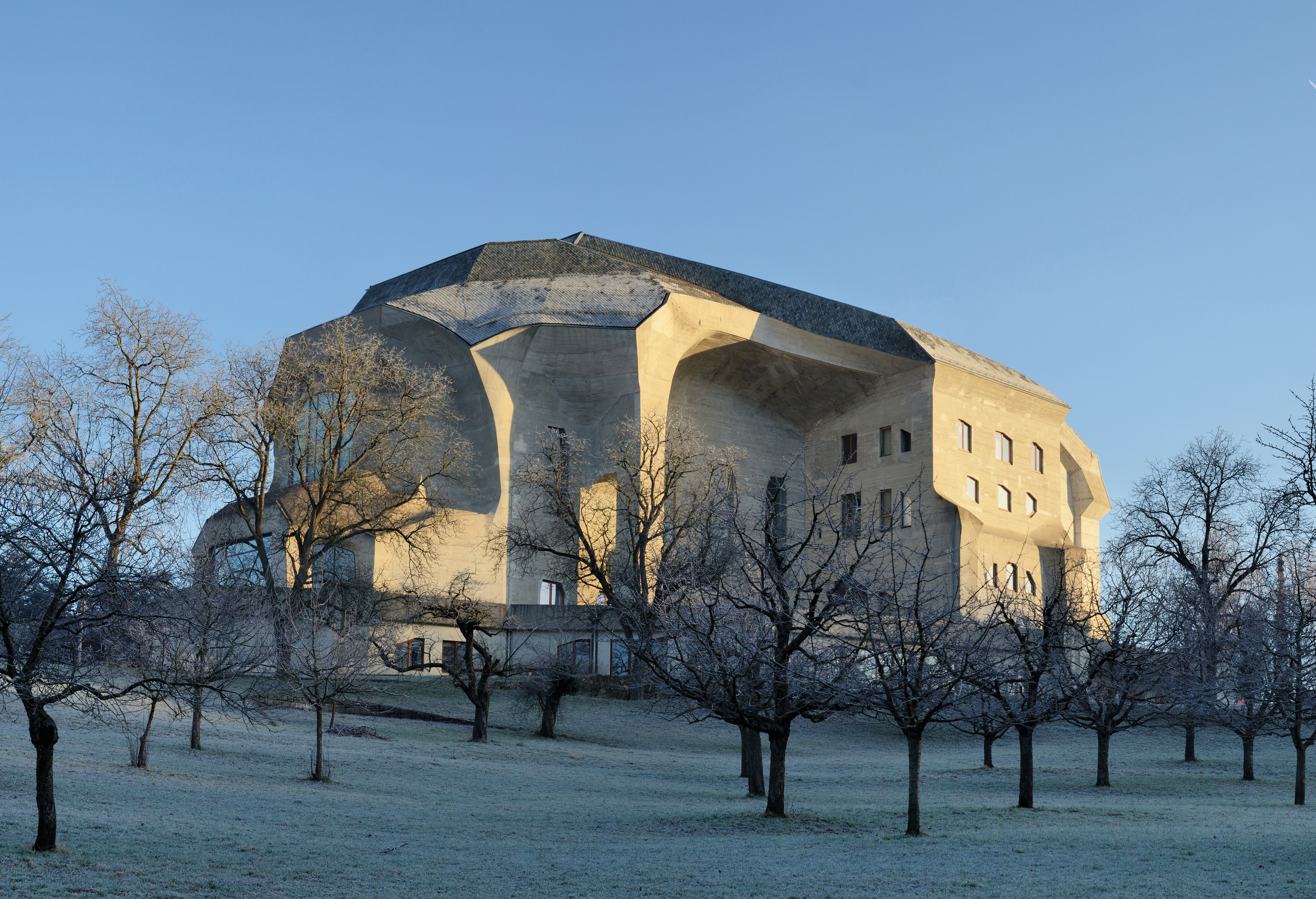 Goetheanum from southwest